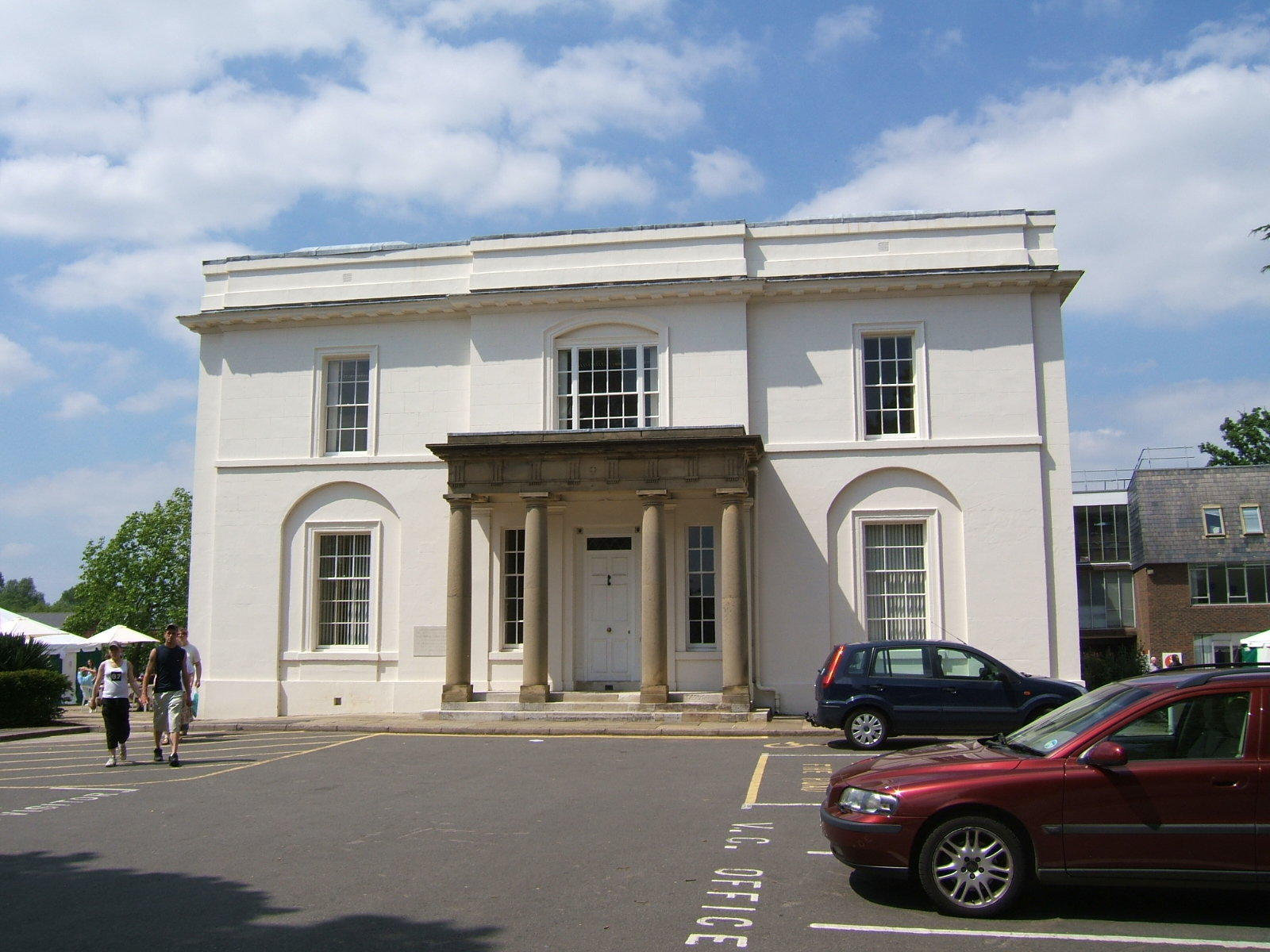 Photograph of Walton Hall on the Open University's campus in Milton Keynes, UK